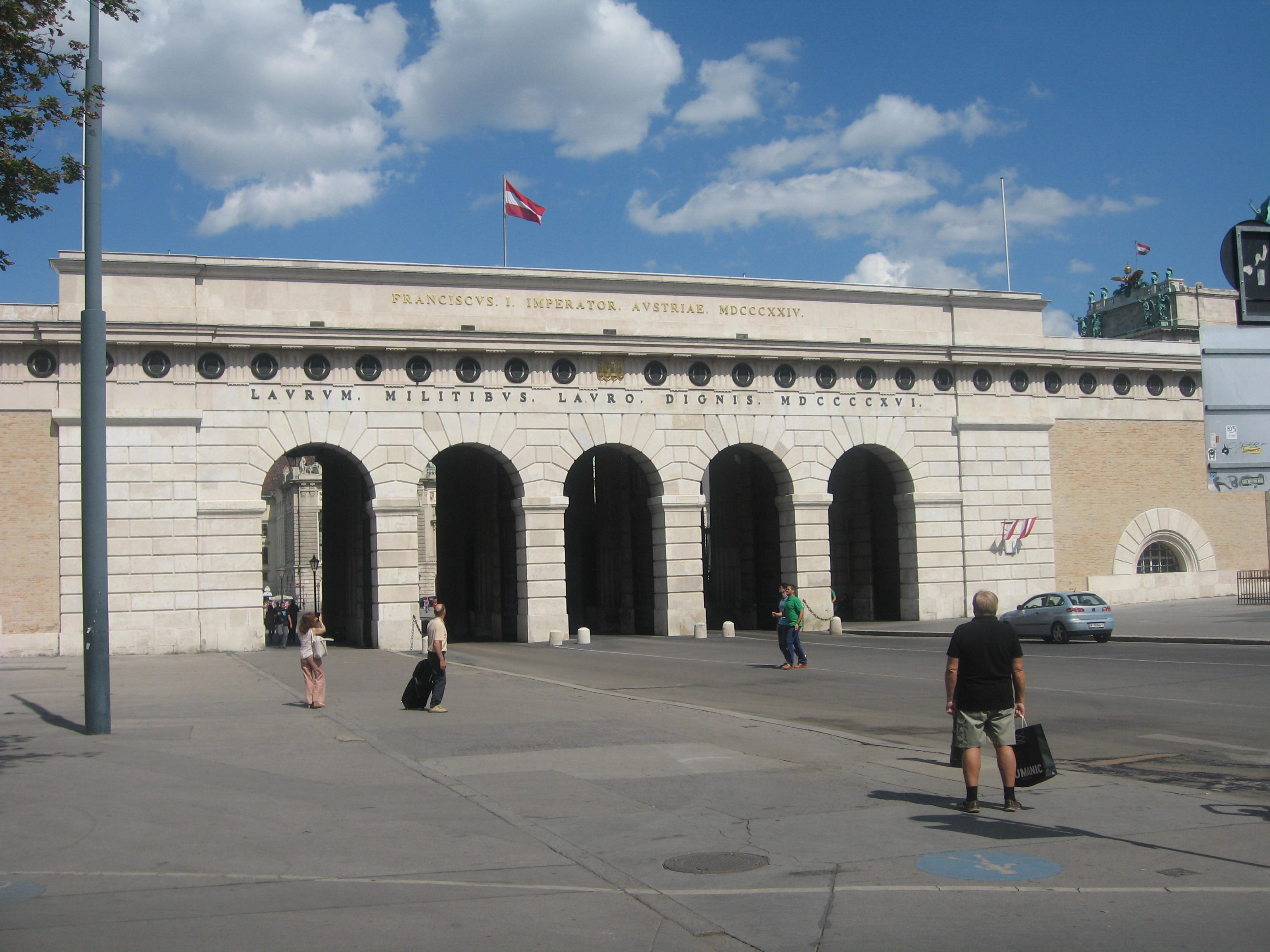 Burgtor Viena